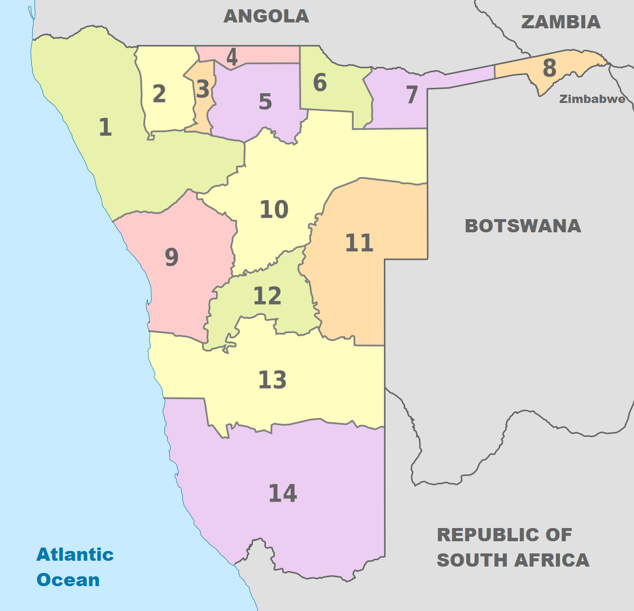 Map of administrative divisions of Namibia; a derivative of File:Namibia, administrative divisions - Nmbrs - colored.svg, author TUBS